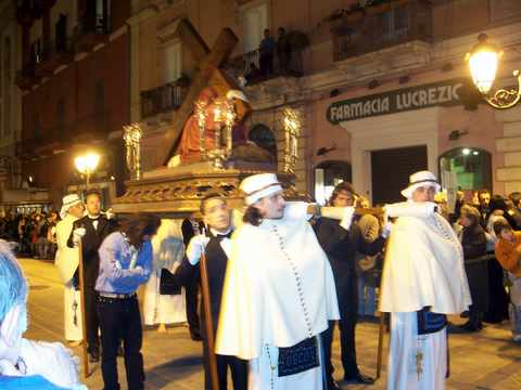 Desciption: Misteri-Prozession (Taranto) - Wasserall Photographer: --Asia Date: 14.4.2006